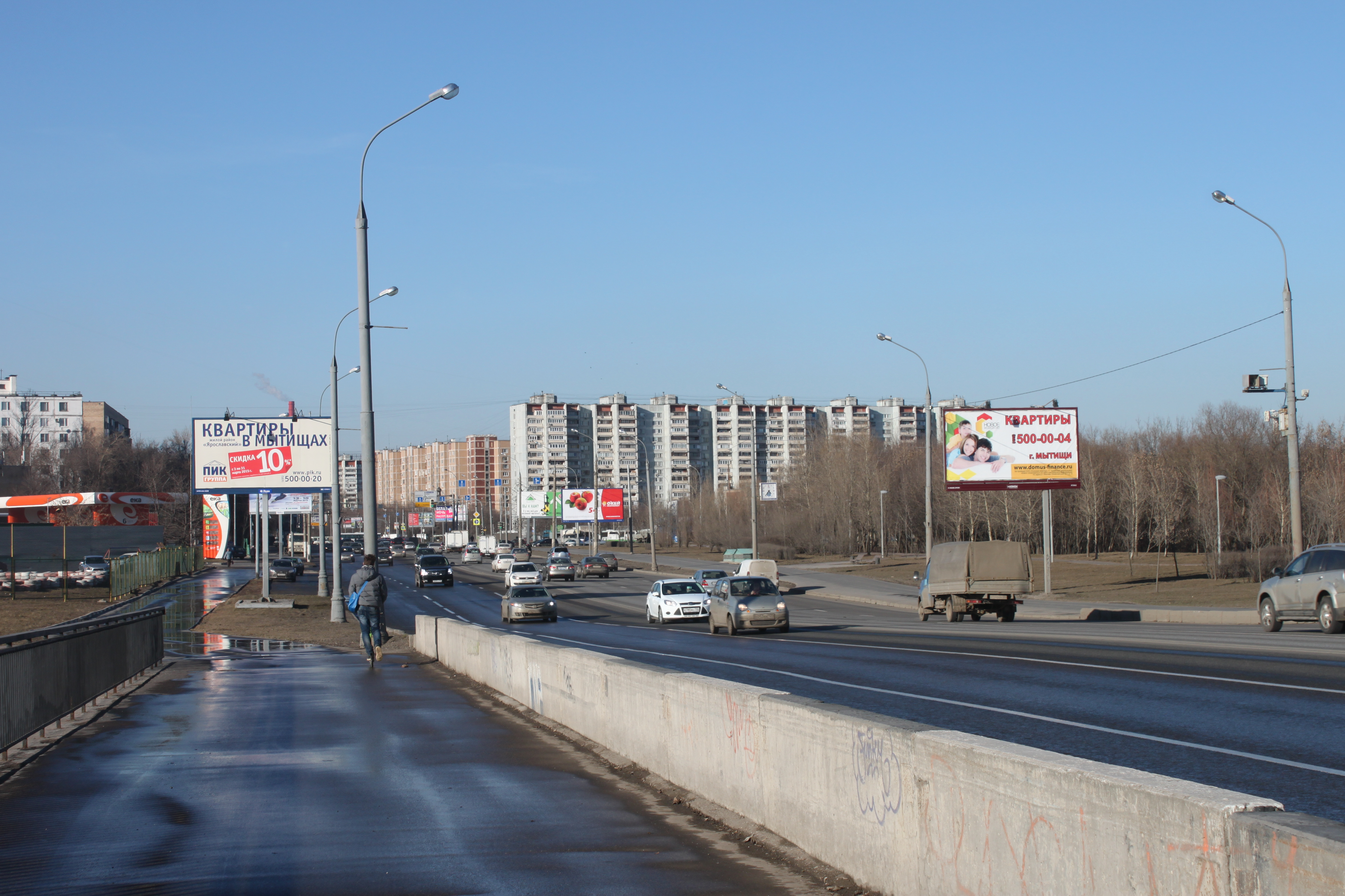 Yeniseyskaya Street (Moscow).